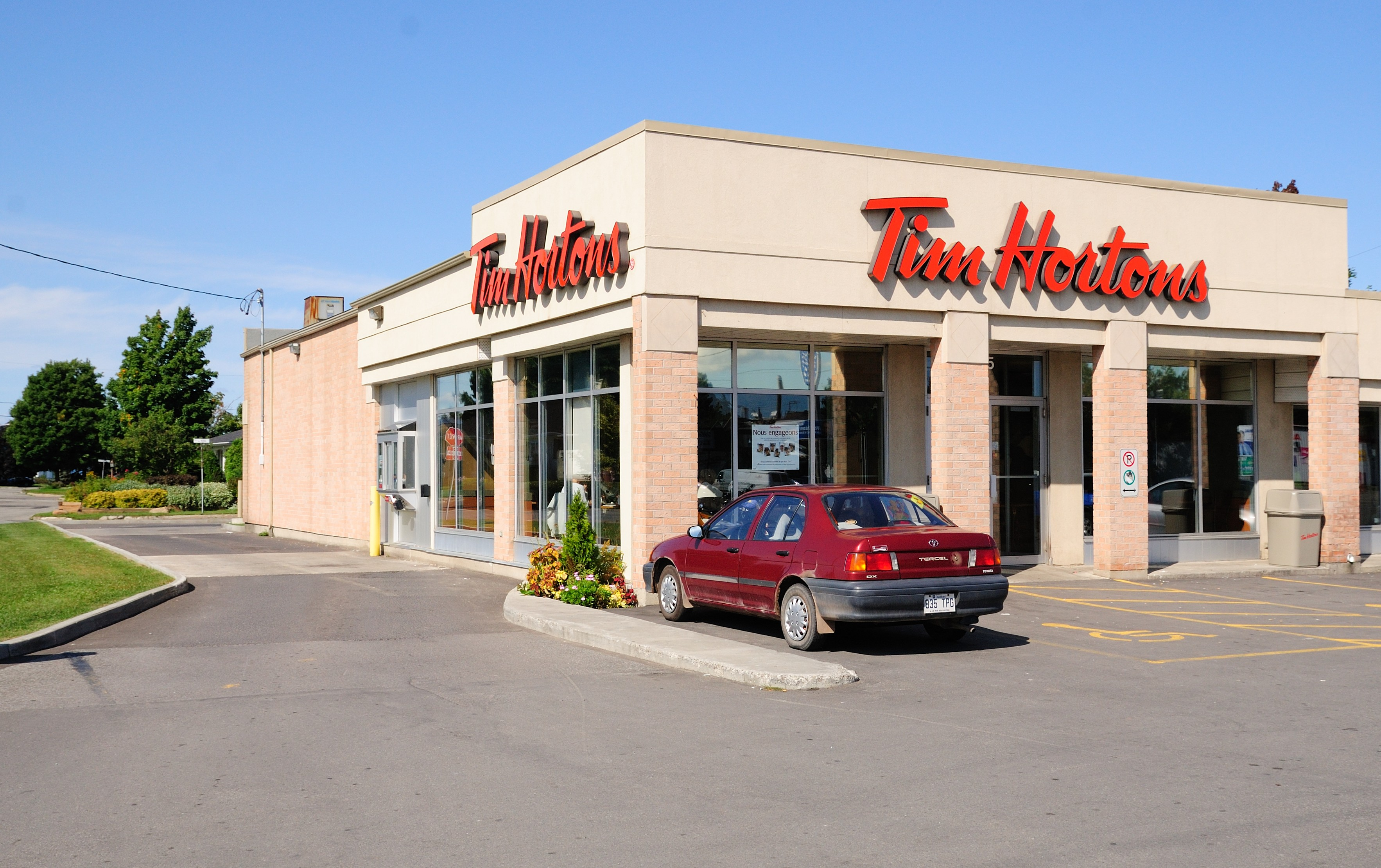 Tim Hortons in Quebéc